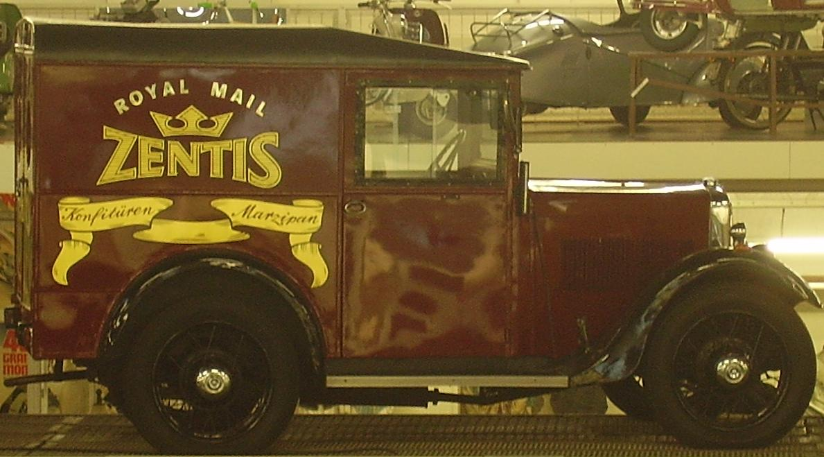 Zentis-company-car at the Sinsheim Auto & Technik Museum (Sinsheim / Germany)